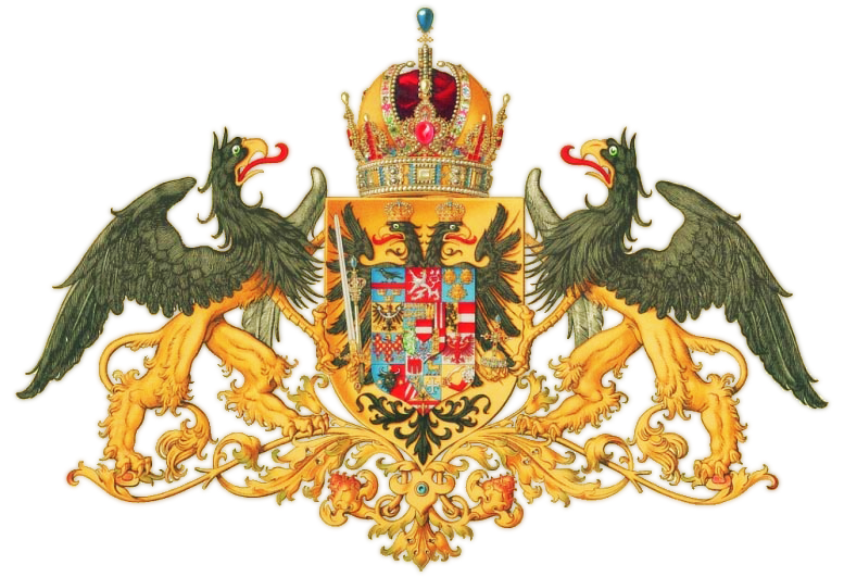 Middle Coats of arms of Austrian Countries, designed in 1915, official draft Hugo Gerhard Ströhl. — Background transparency